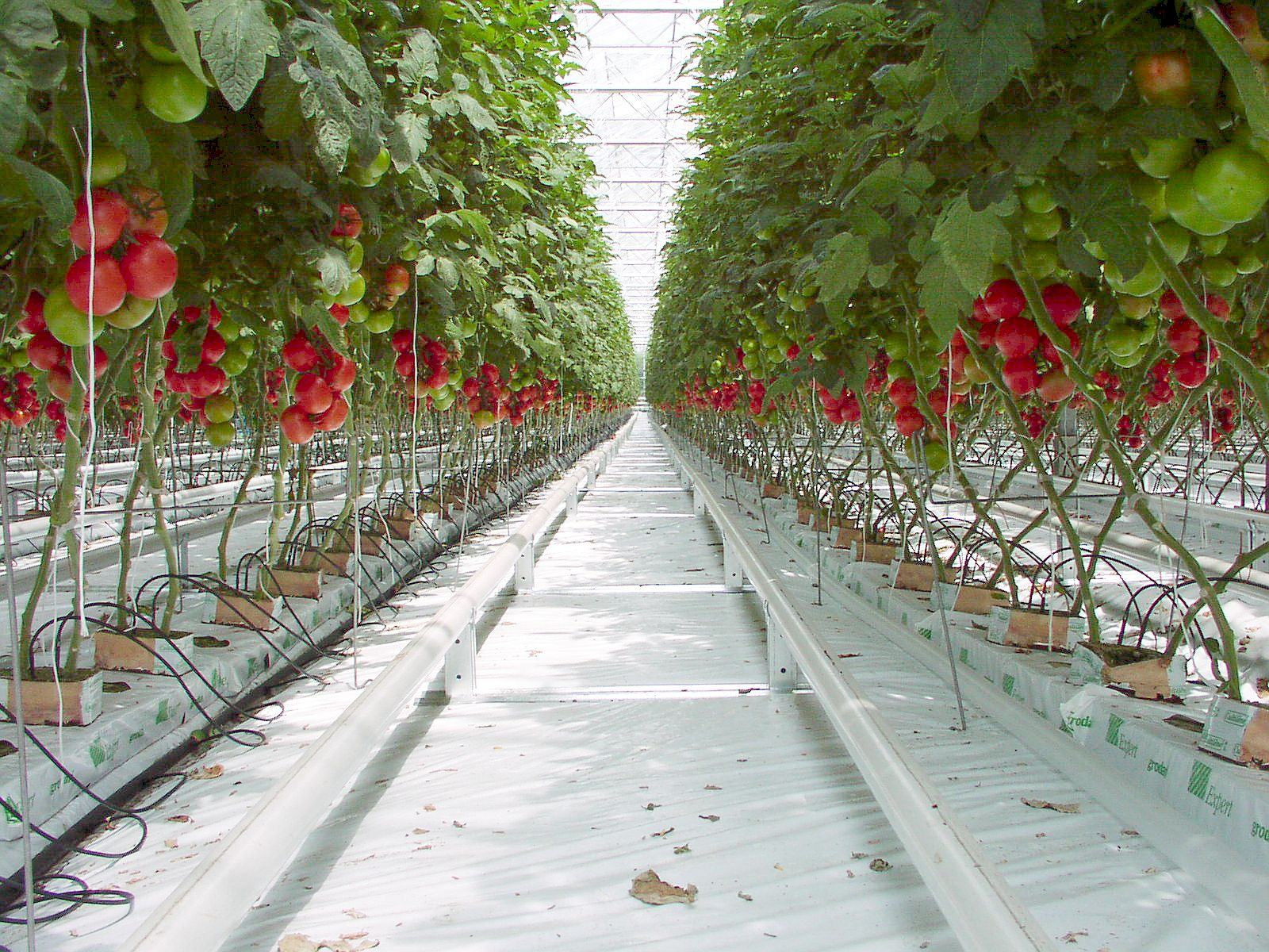 Tomatoes grown on rockwool.